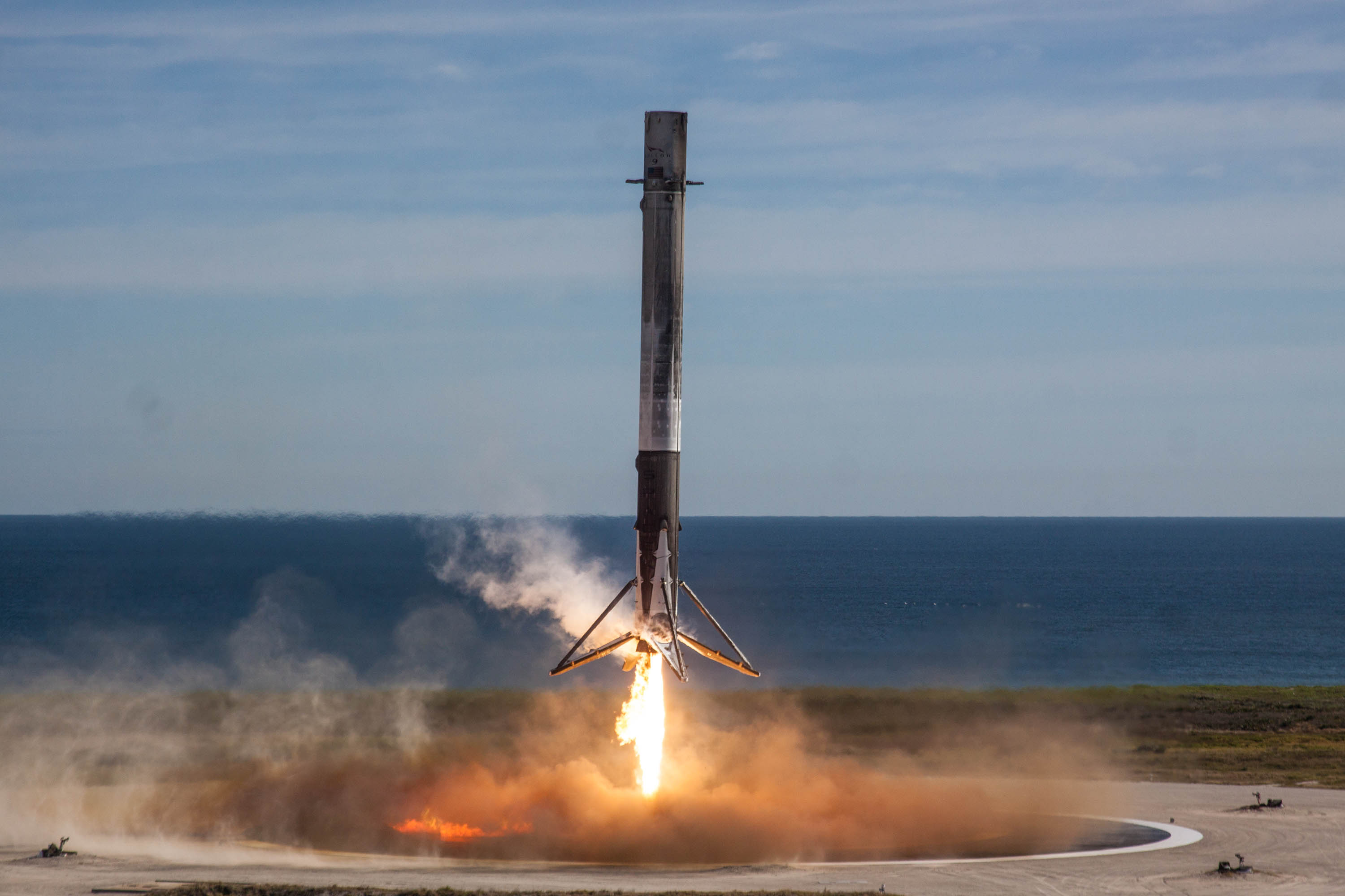 Falcon 9 lands at LZ-1 during the CRS-13 mission